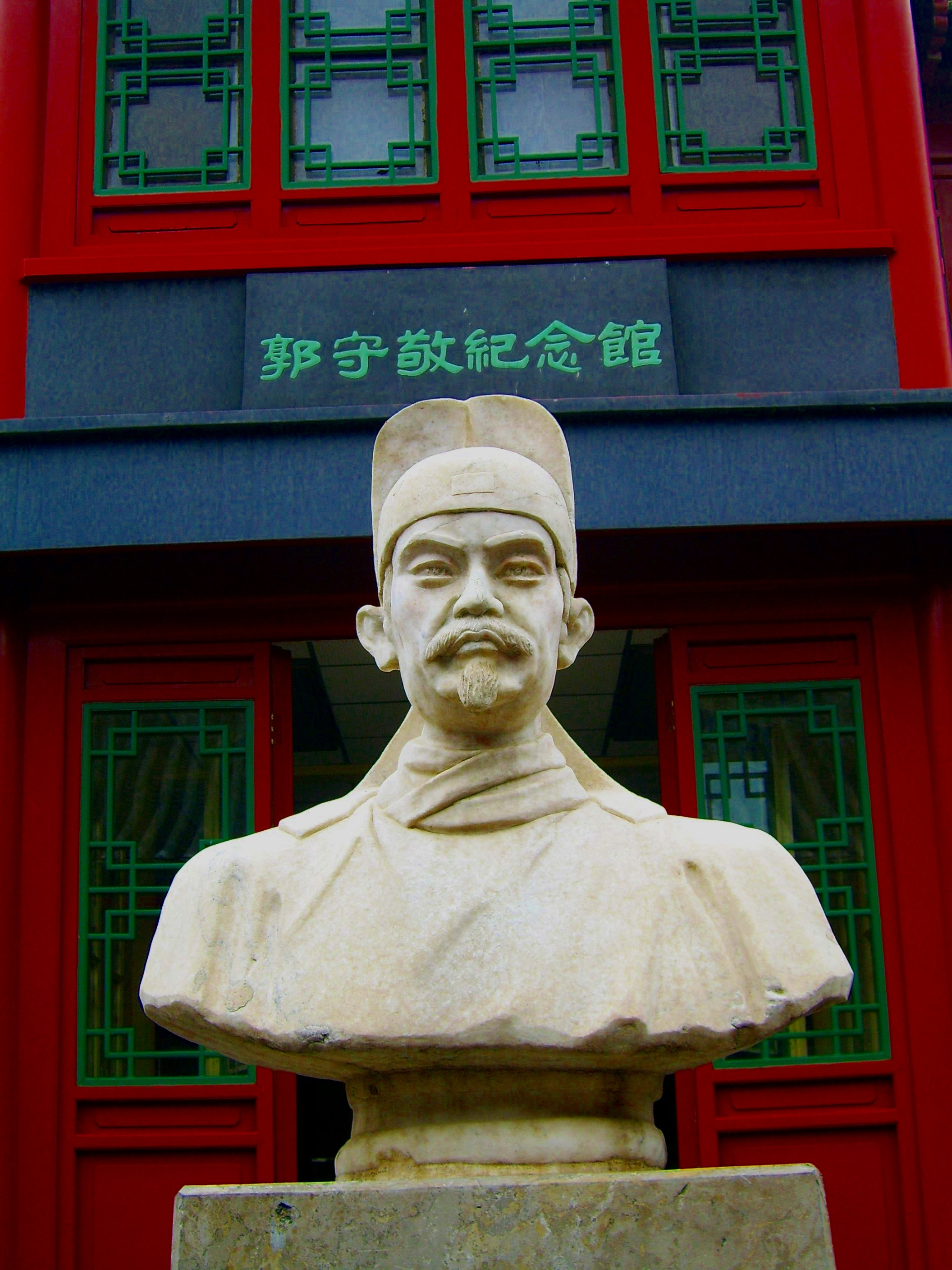 Guo Shoujing, a Chinese astronomer, engineer, and mathematician born in Xingtai, Hebei and living during the Yuan Dynasty